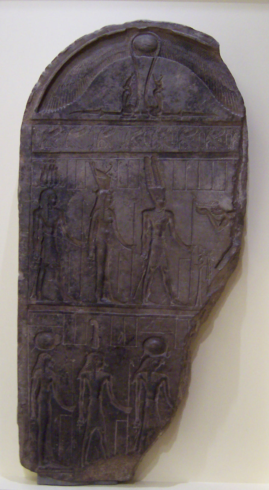 This is a picture of a stela from the Royal Ontario Museum. From the description from the ROM: On this unfinished stela the king, whose figure is broken off, presents an offering to two groups of gods (triads). The top now illustrates gods representing the city of Thebes, from right to left, Amun, Mut, Khonsu; the bottom row shows gods representing the city of Heliopolis, the sun god Ra accompanied by Shu and Tefnut, the gods of sunlight and moisture.